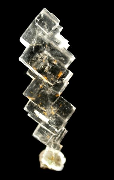 Halite Locality: Stassfurt, Stassfurt Potash deposit, Saxony-Anhalt, Germany (Locality at ) Size: 6.7 x 1.9 x 1.7 cm. A stunning halite specimen of water-clear, stacked echelon and offset cubes. This beautiful specimen is complete-all-around and is pristine. The side views remind me of art by the famed mathematical artist, M.C. Escher. Ex. Carl Turner Collection. From the famed salt deposits at Stassfurt, Saxony-Anhalt, Germany.